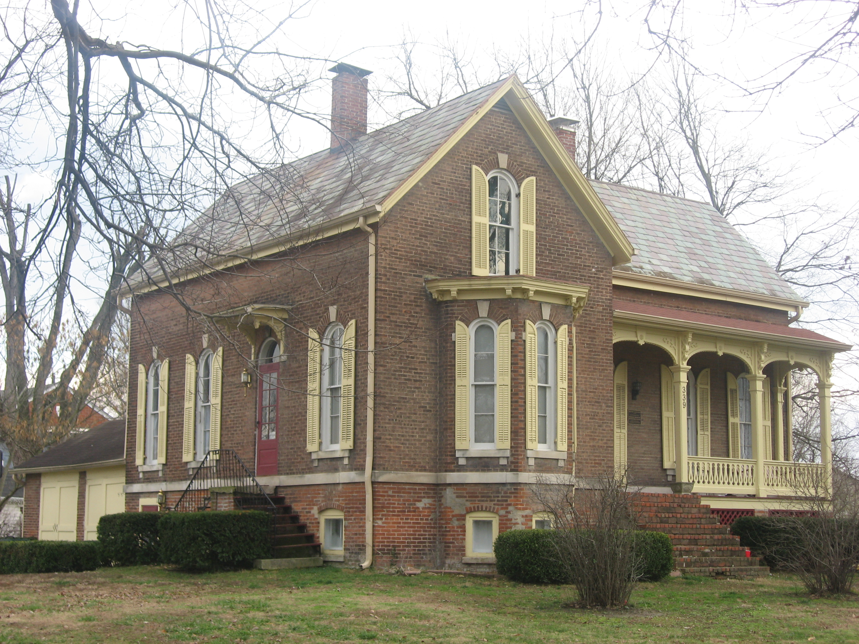 Front and northern side of the Crawford-Gilpin House, located at 339 S. Ohio Street in Martinsville, Indiana, United States. Built in 1862, it is listed on the National Register of Historic Places.